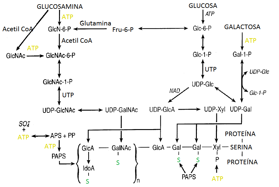 Formation precursors of dermatan sulfate